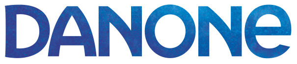 Logo of Groupe Danone